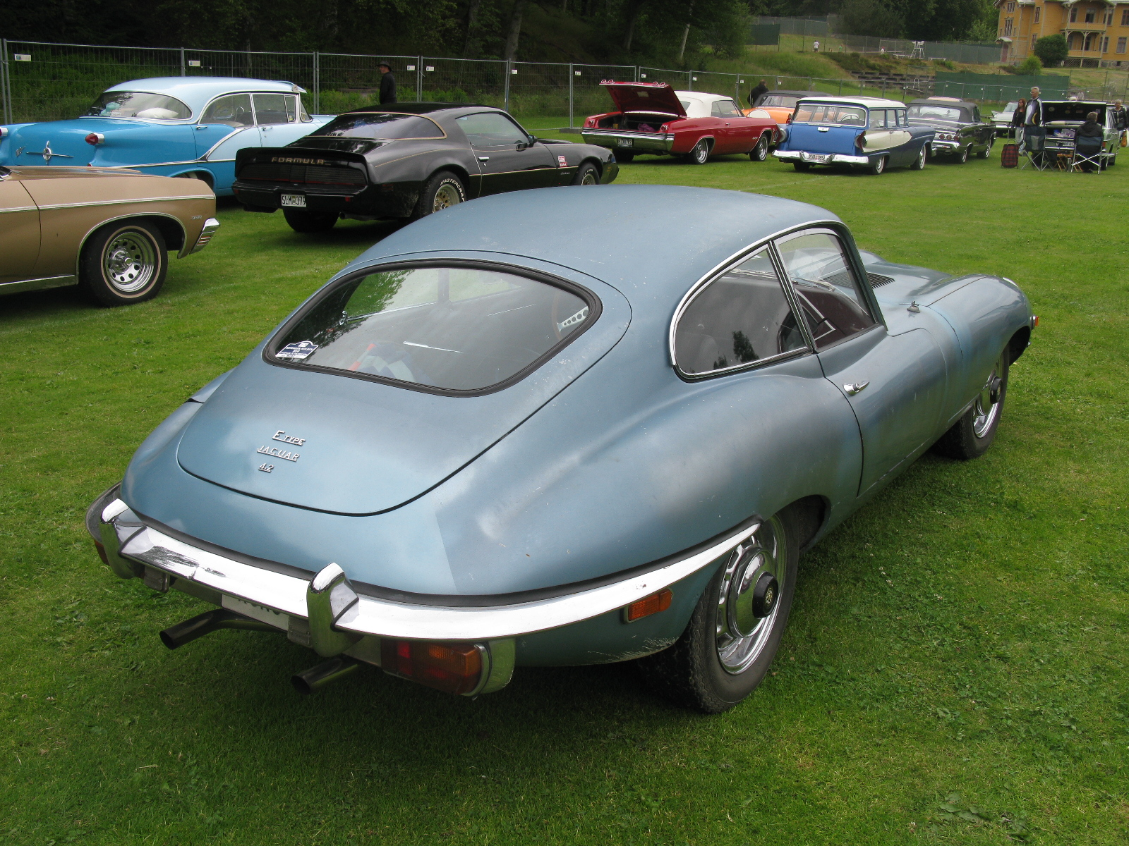 Jaguar E Type 4.2 Coupé